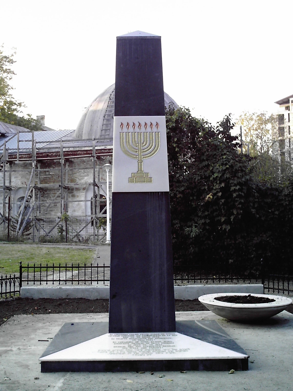 Victims of Iași Pogrom Monument, Iași (Iassy), RomaniaRomână: Monumentul Victimelor Pogromului de la Iaşi, Iași, Romania